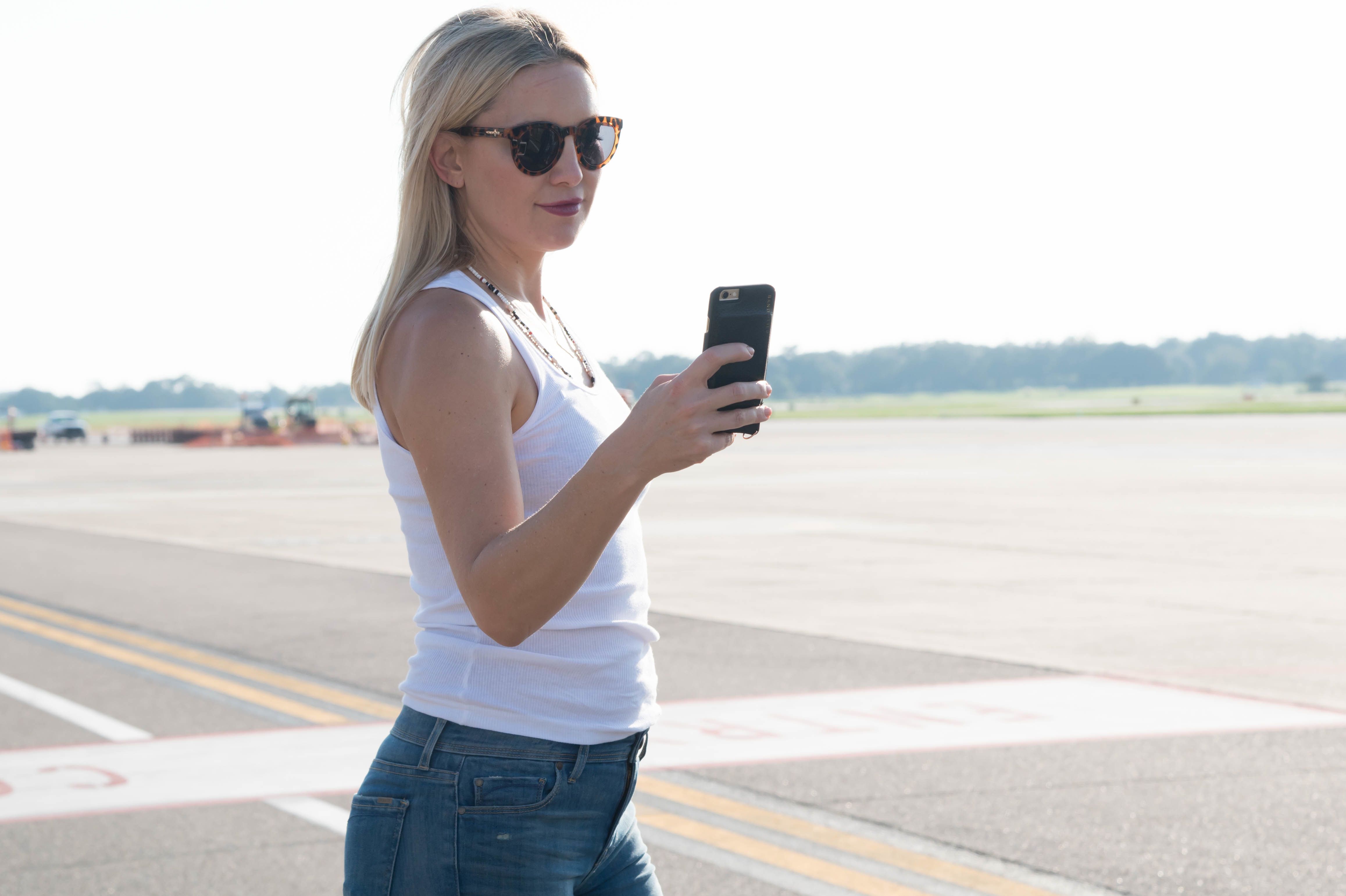 Actress Kate Hudson takes a photo of a WC-130J during her visit to Keesler Air Force Base Sept. 10. She, along with actor Kurt Russell and director Peter Berg toured the base as part of a prescreening of their new film, Deepwater Horizon.